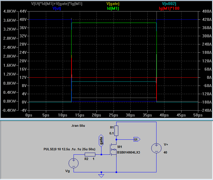 NMOS power transistor turning on and off